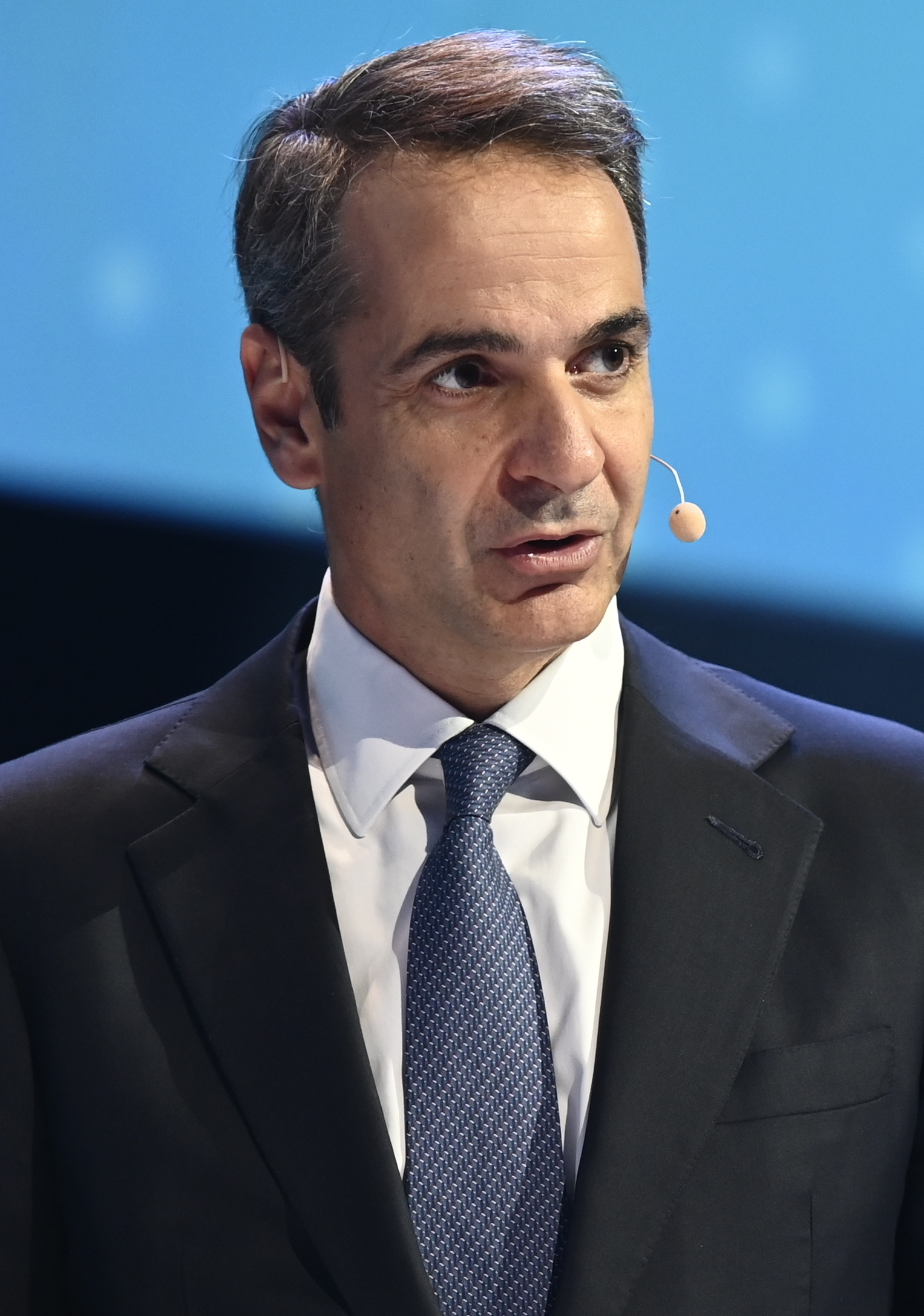 EPP Zagreb Congress in Croatia, 20-21 November 2019